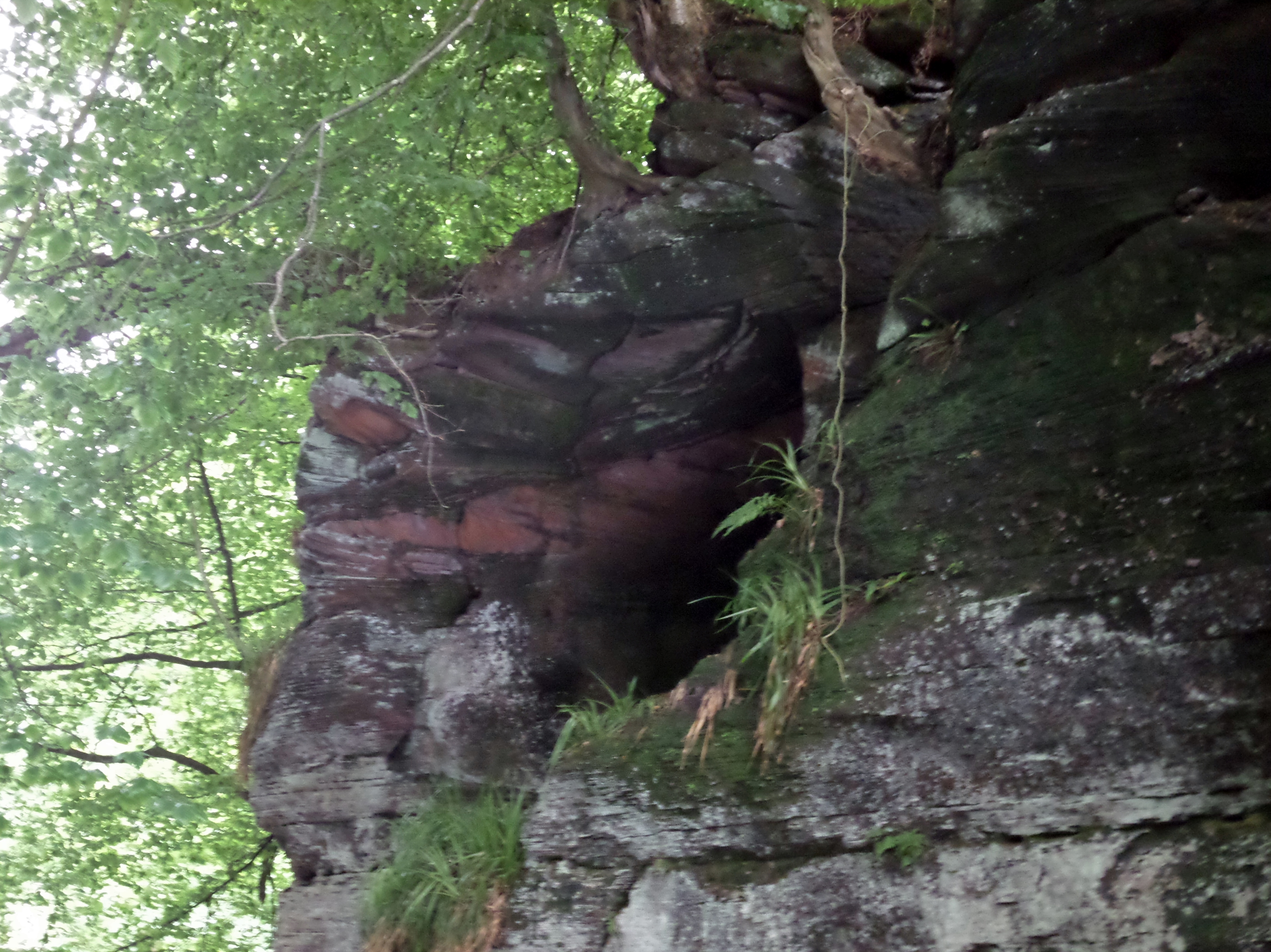 Peden's Cave opening, River Lugar, Auchenbay, East Ayrshire, Scotland.